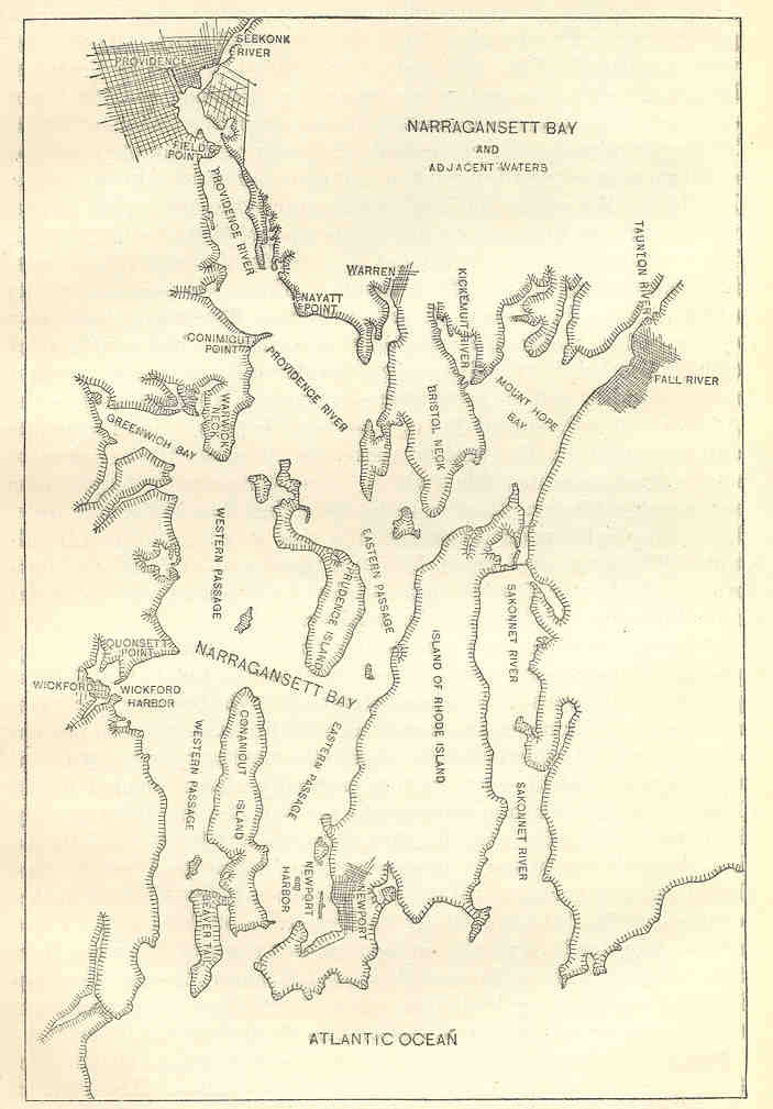 Narragansett Bay and Adjacent Waters Subject: Narragansett Bay (Rhode Island) Geographic Subject: United States--Rhode Island--Narragansett Bay Tag: Commercial Fisheries